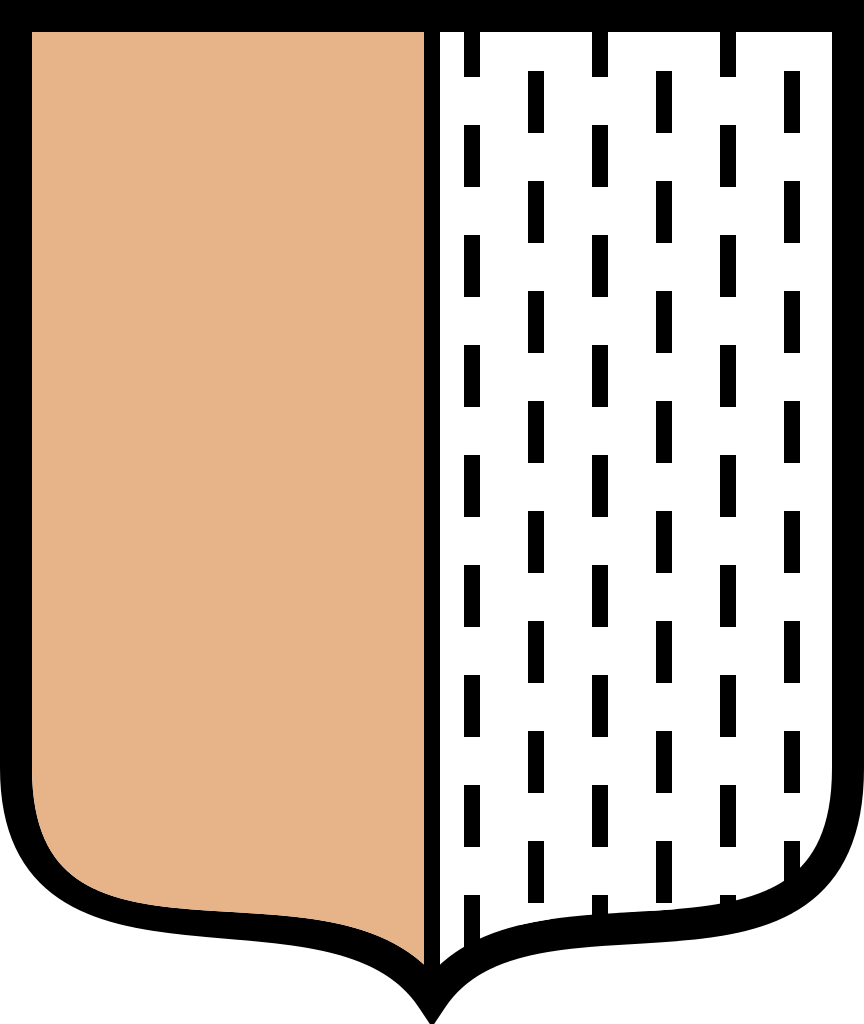 Heraldic tincture shield, carnation